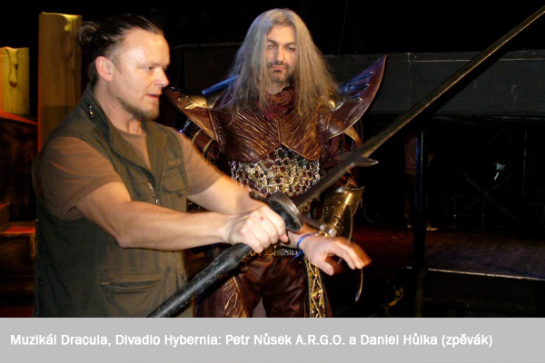 Petr Nůsek Personality rights warningAlthough this work is freely licensed or in the public domain, the person(s) shown may have rights that legally restrict certain re-uses unless those depicted consent to such uses. In these cases, a model release or other evidence of consent could protect you from infringement claims.